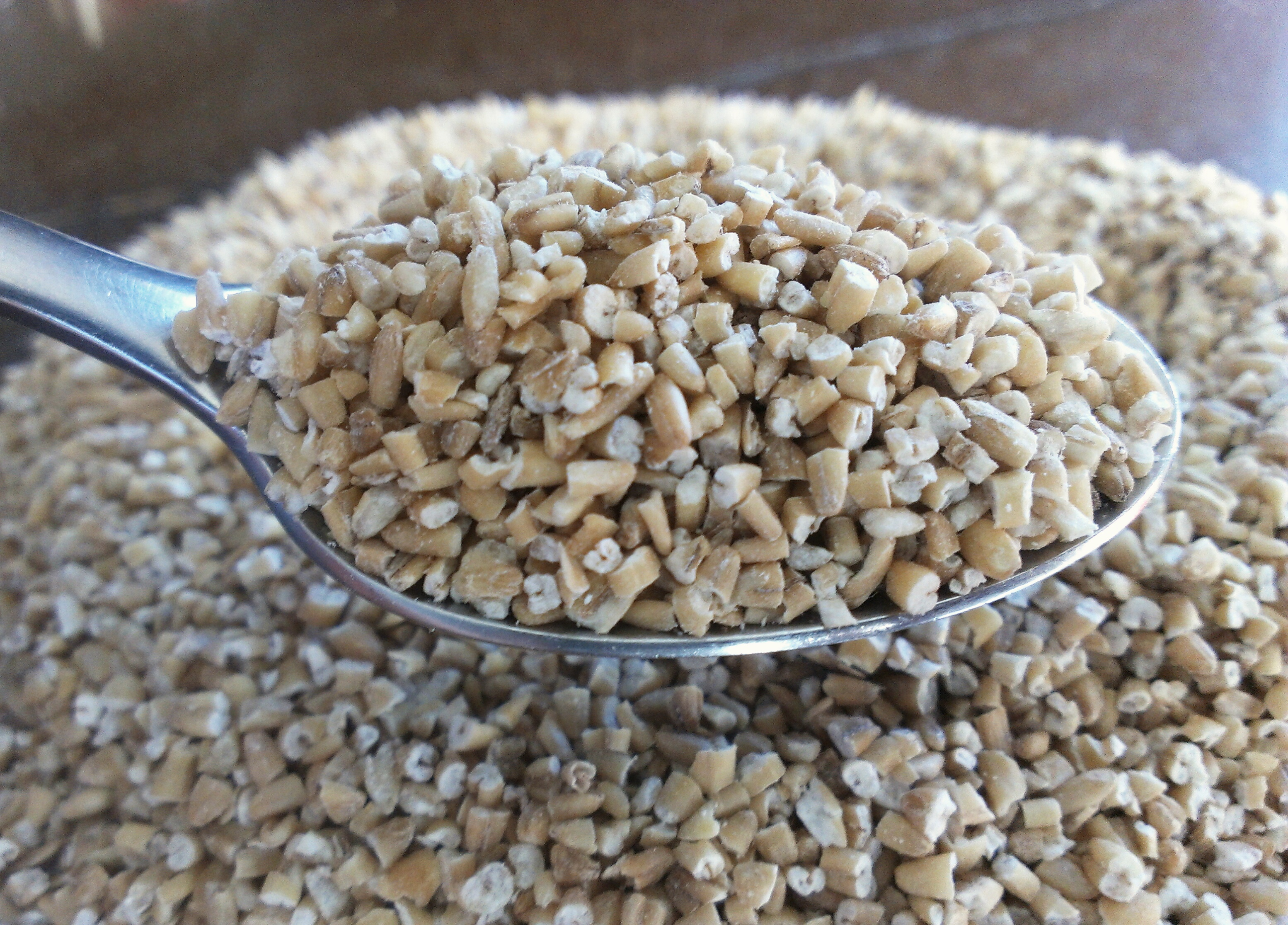 a close-up of dry steel-cut "Irish Style" oats, Country Choice Organic brand